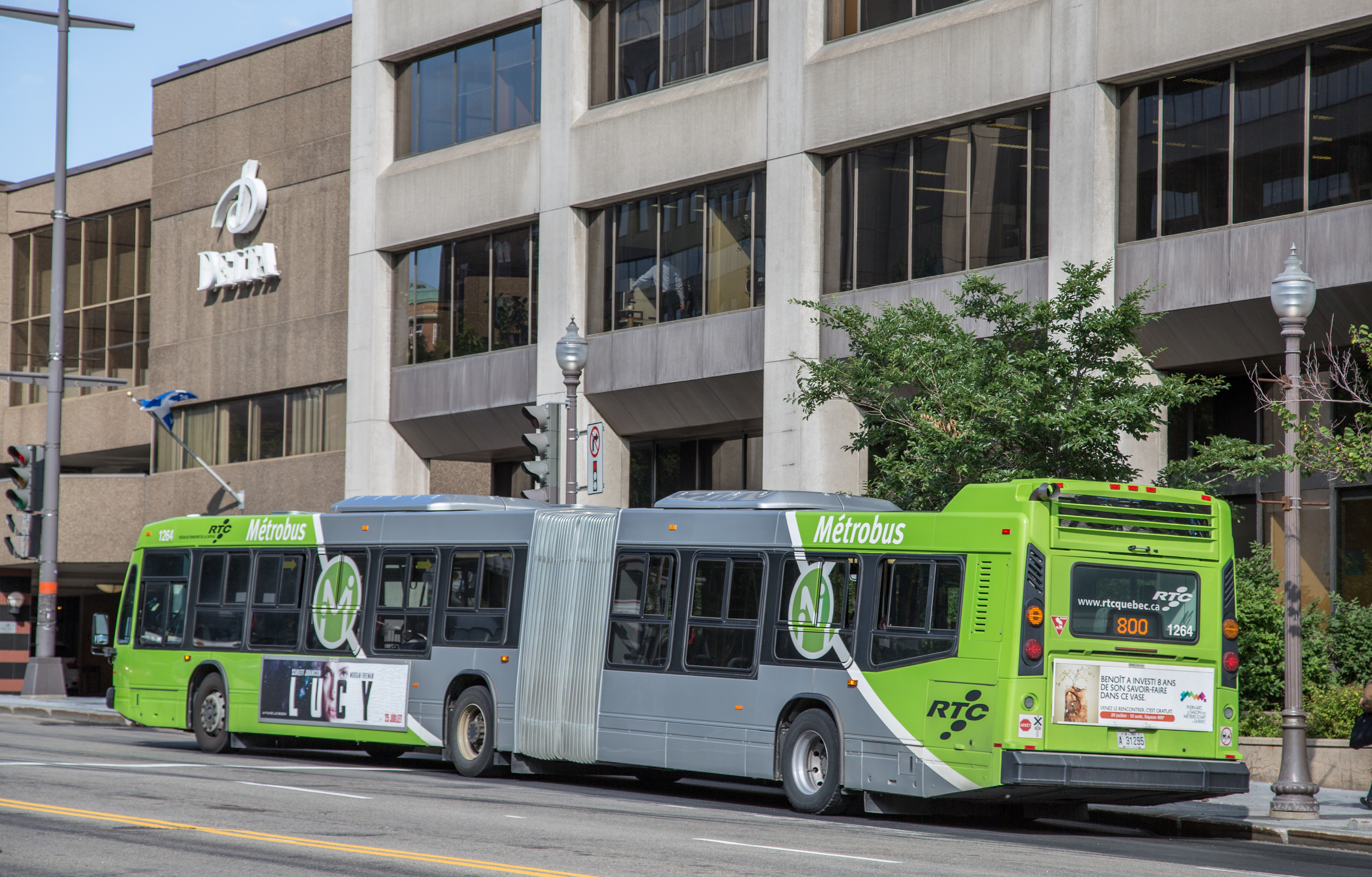 An RTC Métrobus in Québec City.